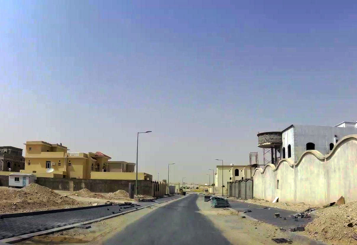 Under construction road near Al Eshkoot Street in Al Wajbah district, Al Rayyan, Qatar.